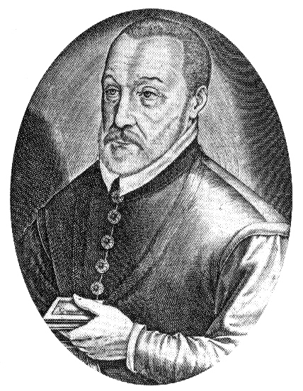 Blaise de Vigenère, 16th century French diplomat and cryptologist. Portrait by Thomas de Leu. From English wikipedia. No copyright due to date of the image.